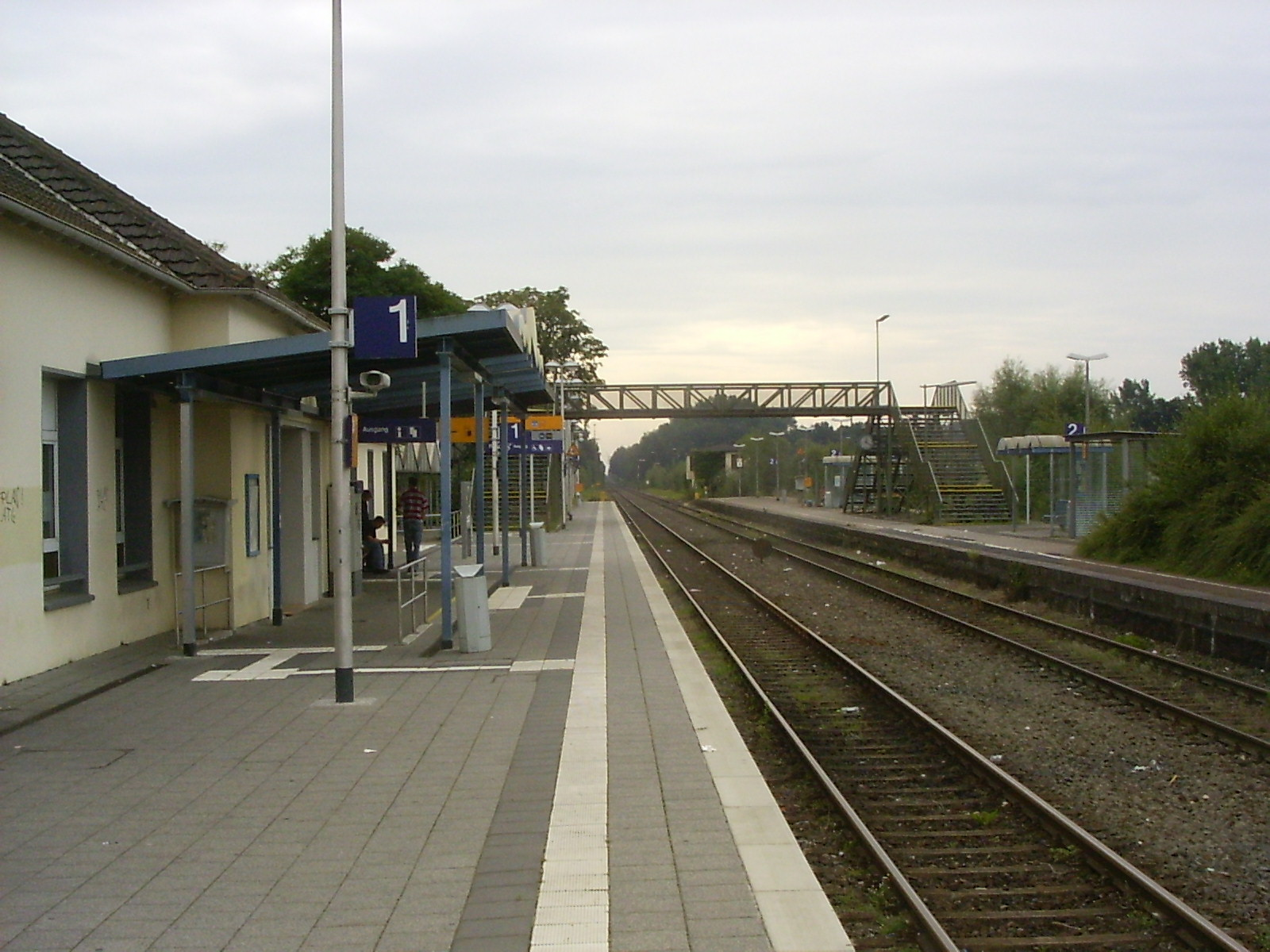 Pedestrian bridge at Geldern train station